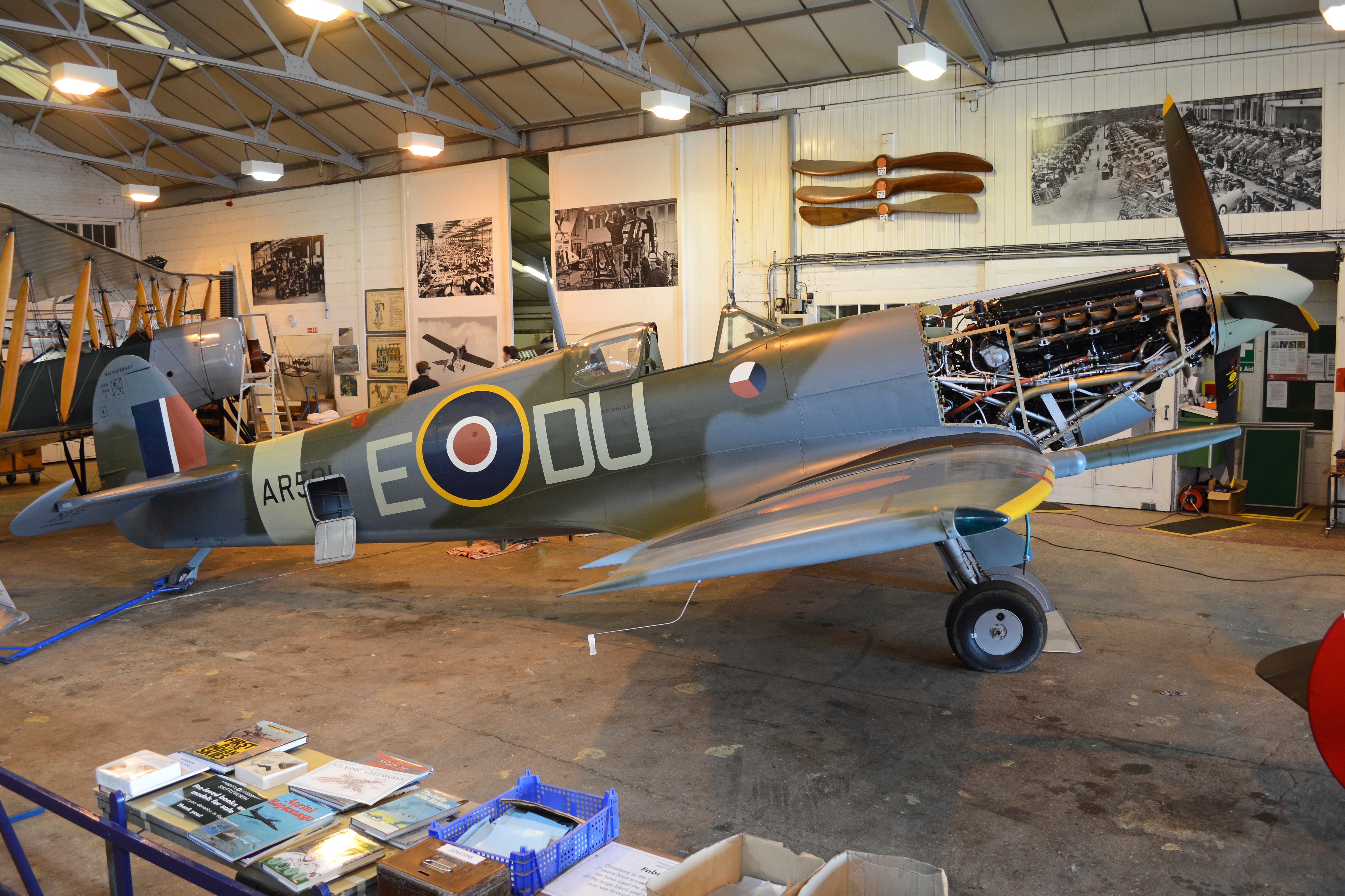 c/n WASP/20/223. A Shuttleworth Collection aeroplane, AR501 is now rapidly approaching the end of a complete and thorough restoration in the collections maintenance hangar/workshop. She has now received genuine 312(Czech) squadron markings which are original for this airframe. Other than the still missing starboard aileron, she looks pretty much ready to fly. This was taken on the morning of the 2017 Edwardian Pageant, Old Warden, Bedfordshire, UK. 6th August 2017